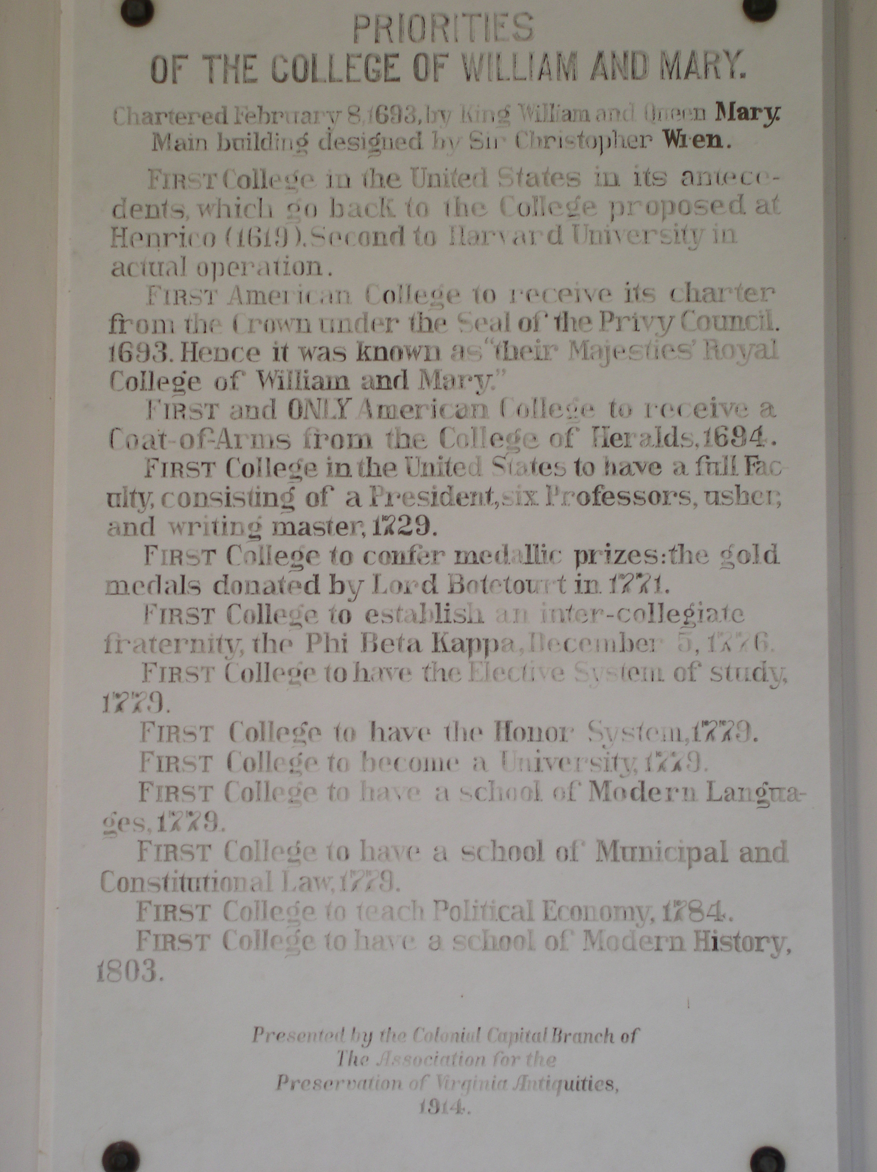 Author = User:Stillnotelf Source = Took the photo myself, plaque donated by the Association for the Preservation of Virginia Antiquities in 1914, as can be seen in the image Date = 03:00, 18 March 2006 (UTC) Description = This is an image of a plaque listing notable academic firsts reached by the College of William and Mary. It is on the side of the Wren Building facing the Sunken Gardens (Virginia).